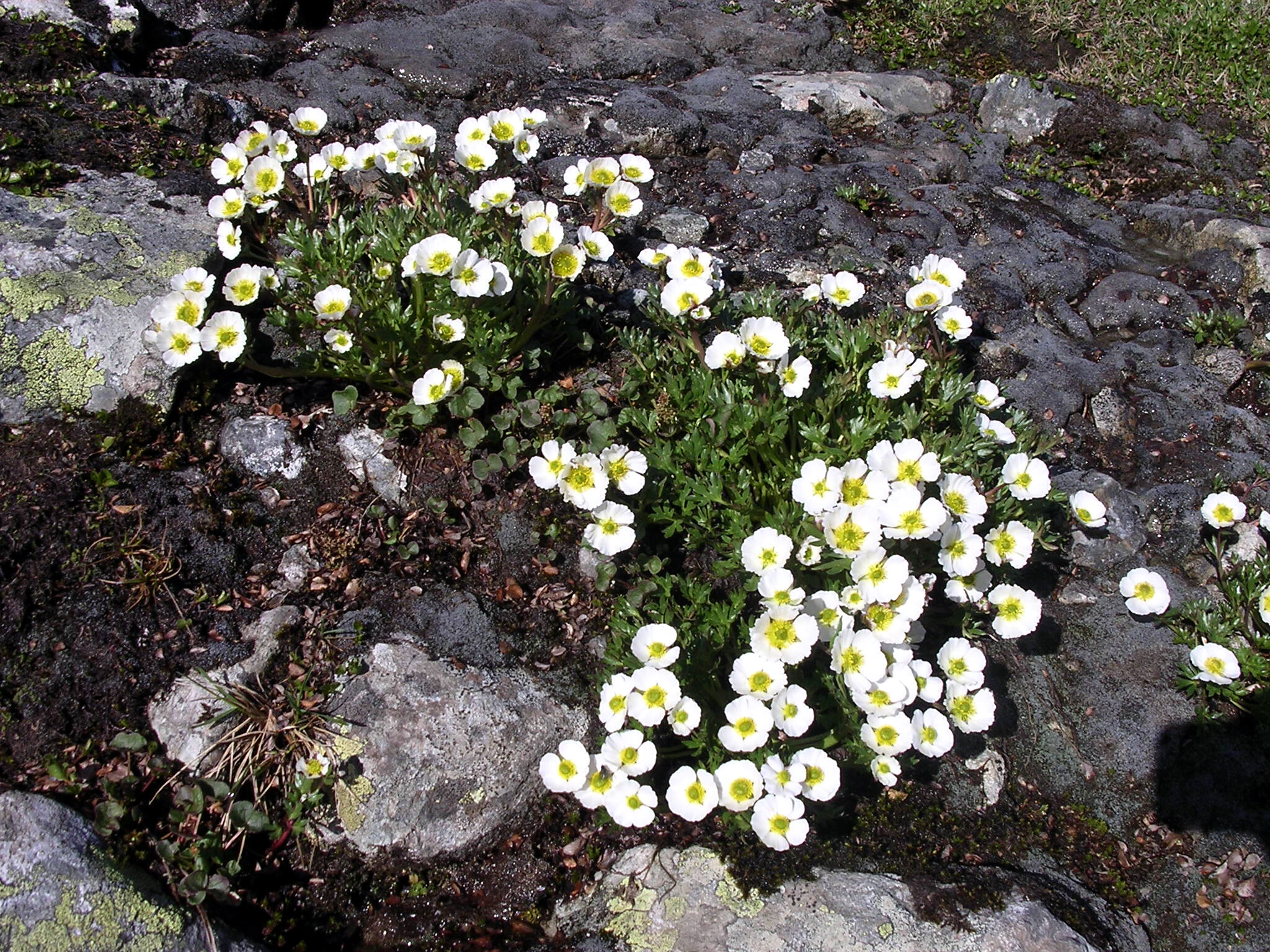 The flowers "glacier buttercup" in Jotunheimen, Norway.